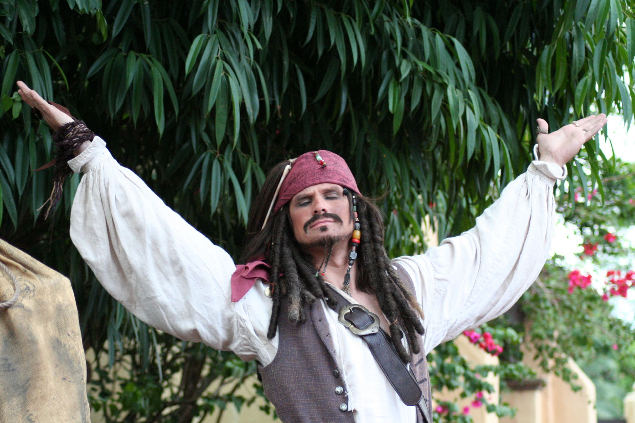 Captain Jack Sparrow in the Pirate Tutorial at Magic Kingdom. A "Pirates of the Caribbean" imitator (Disneyworld: Magic Kingdom, Florida, USA)